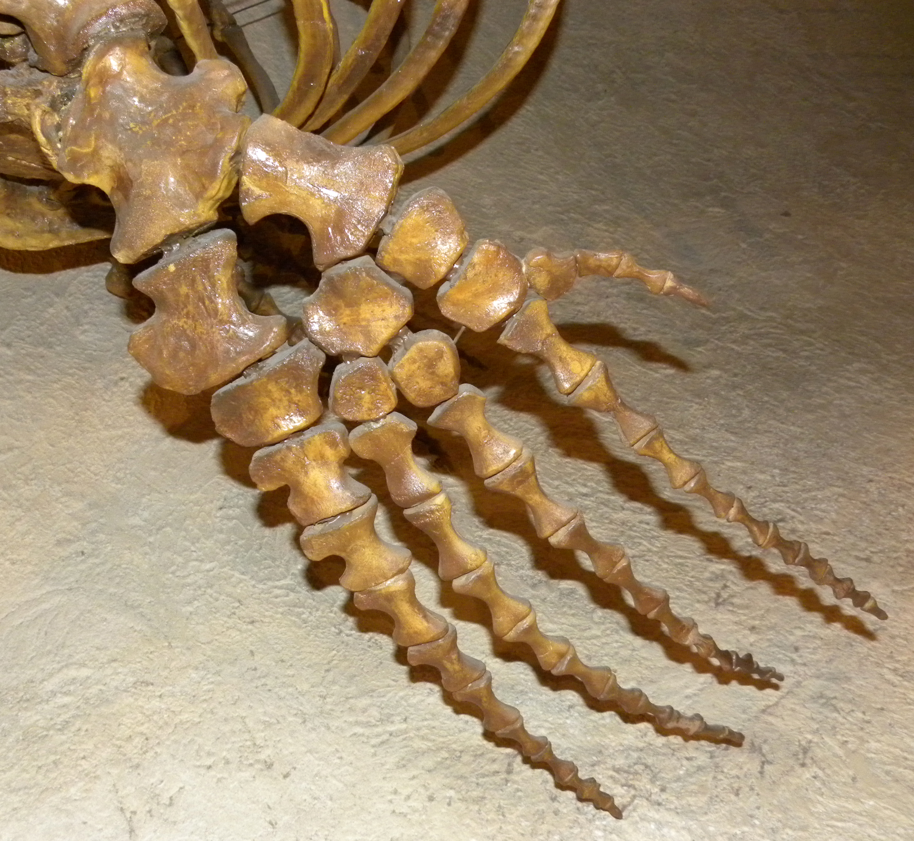 Mosasaurus front paddle; Natural History Museum of Maastricht, The Netherlands. Photograph taken by Mark A. Wilson (Department of Geology, The College of Wooster). [1]